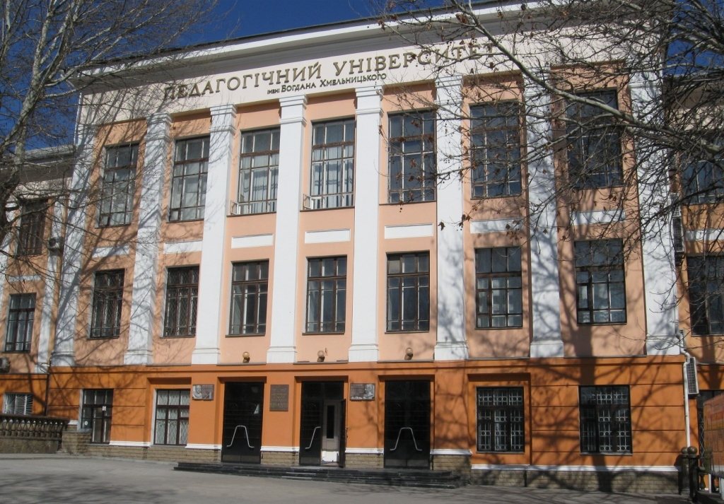 Melitopol State Pedagogical University named after Bohdan Khmelnytskyi